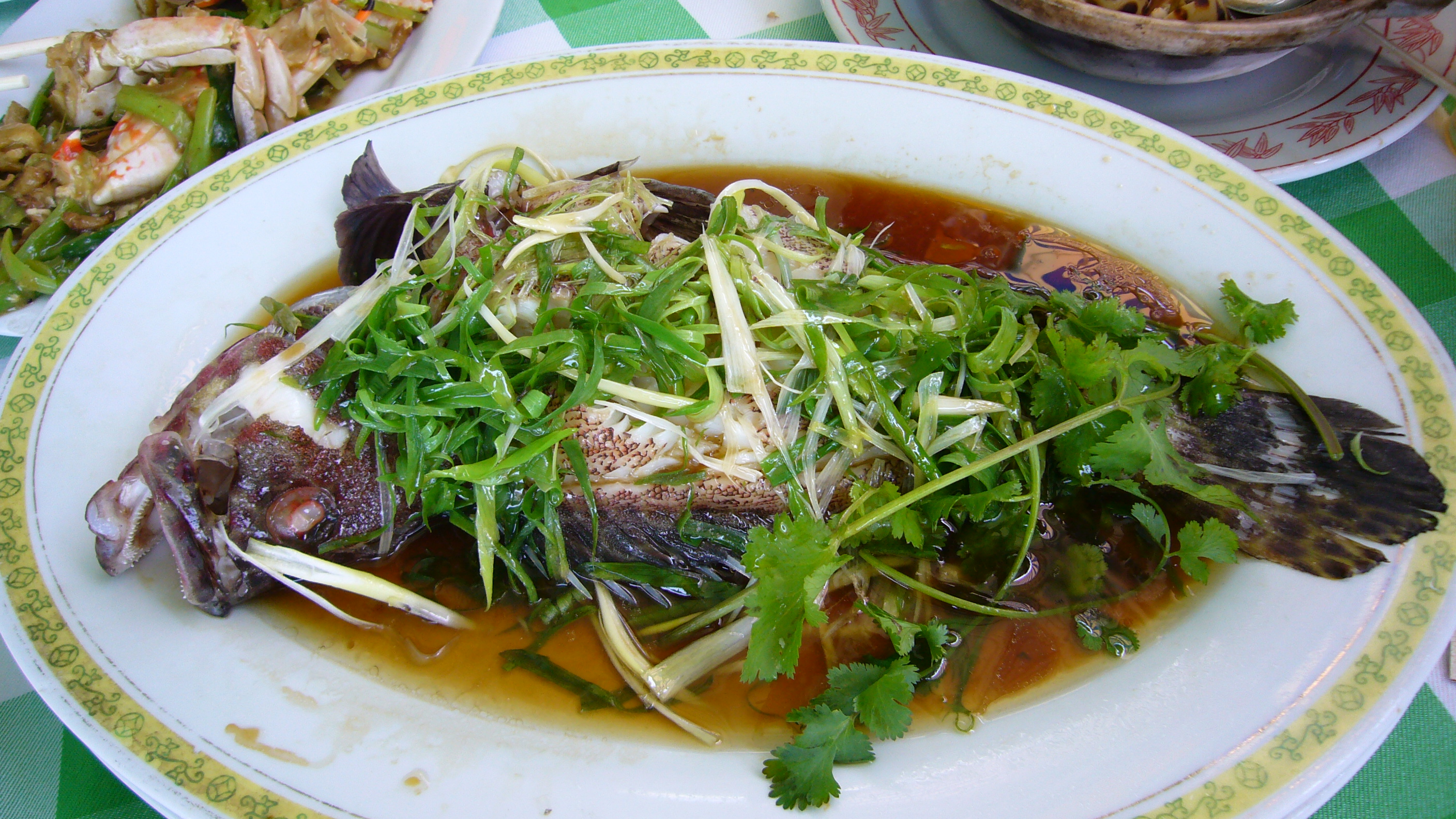 Steamed Grouper